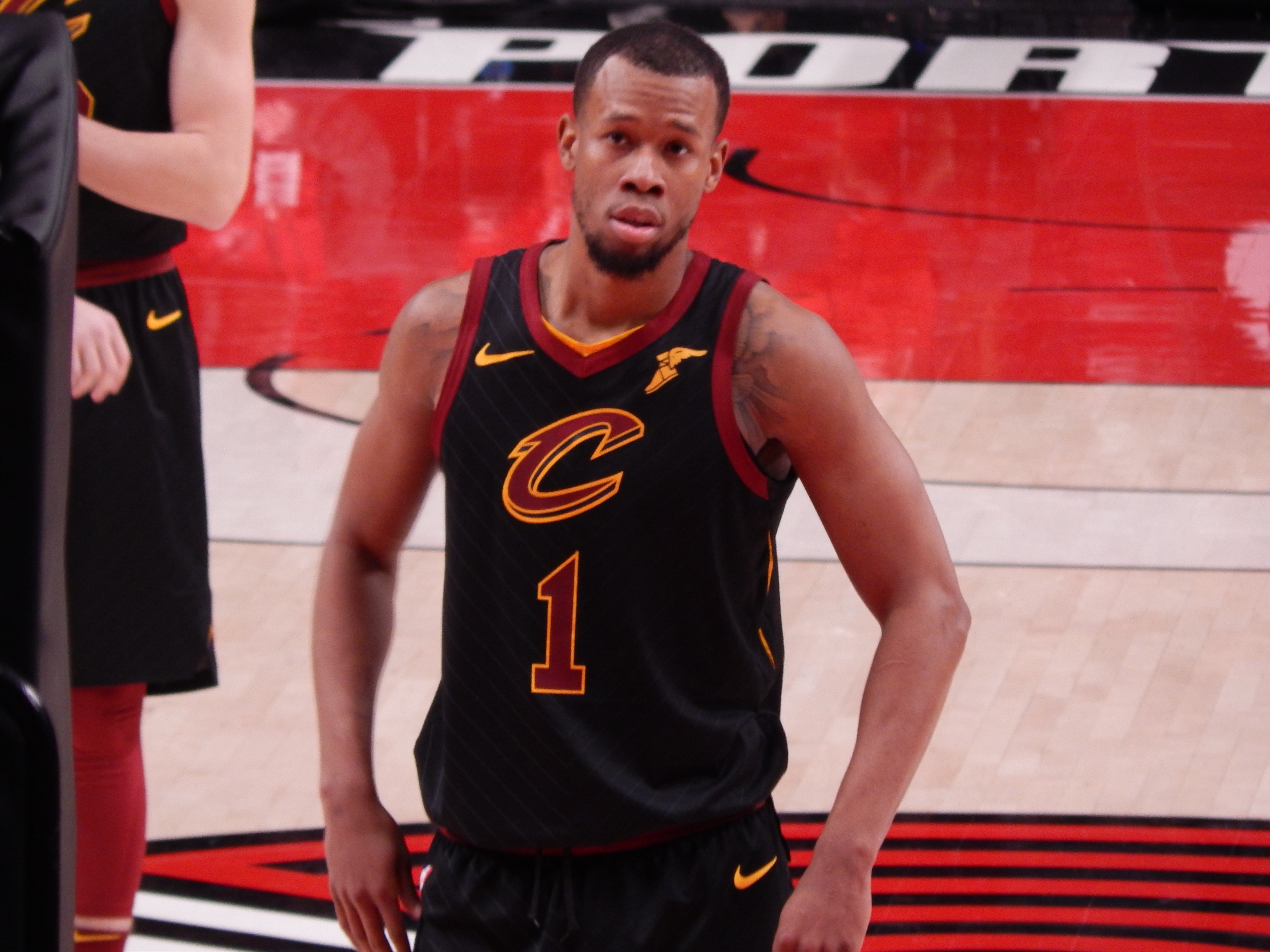 Rodney Hood #1 of the Cleveland Cavaliers against the Portland Trail Blazers on January 16, 2019 at Moda Center in Portland, Oregon.